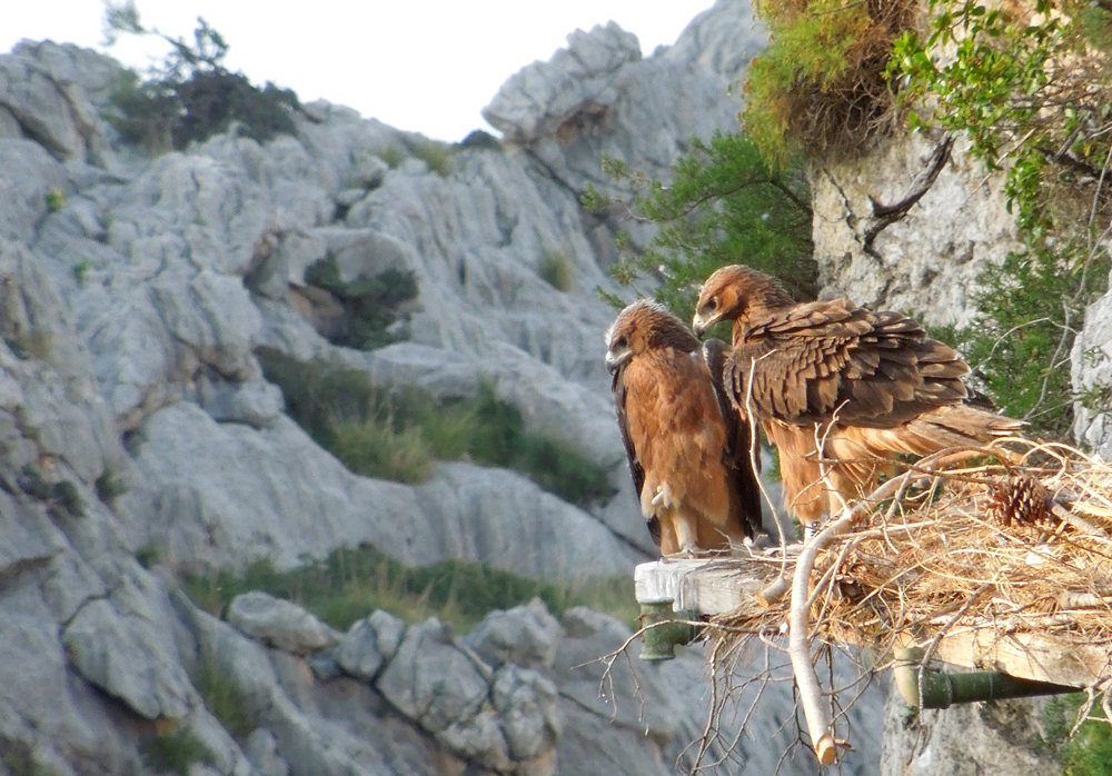 Aquila fasciata on nest - artificial nesting place - Balearic Islands